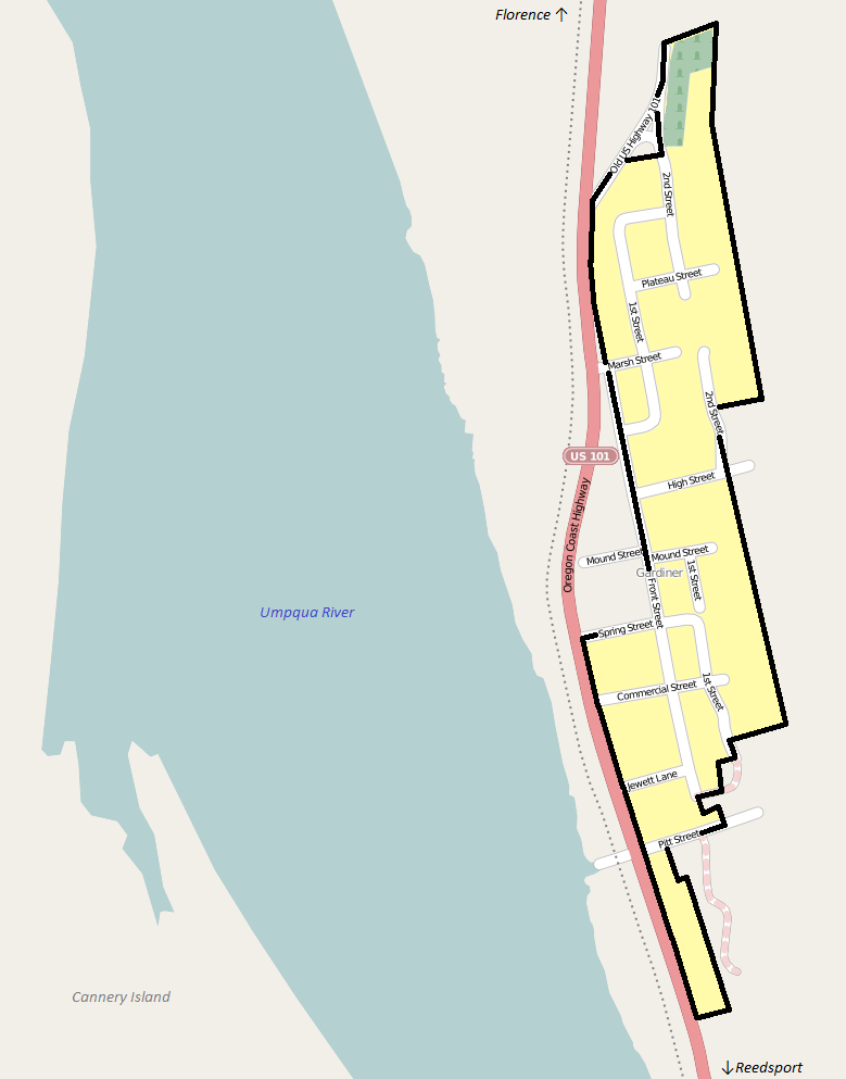 Map showing the boundaries of the Gardiner Historic District in Gardiner, Oregon, United States. The historic district is listed on the US National Register of Historic Places. Boundary data is derived from the historic district's National Register nomination form. Black boundary/yellow area: Gardiner Historic District boundaries.